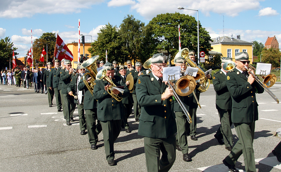 Danish national flag day for remembering soldiers on service outside Denmark on September 5 is celebrated in Copenhagen and locally as here in Køge September 5, 2010.